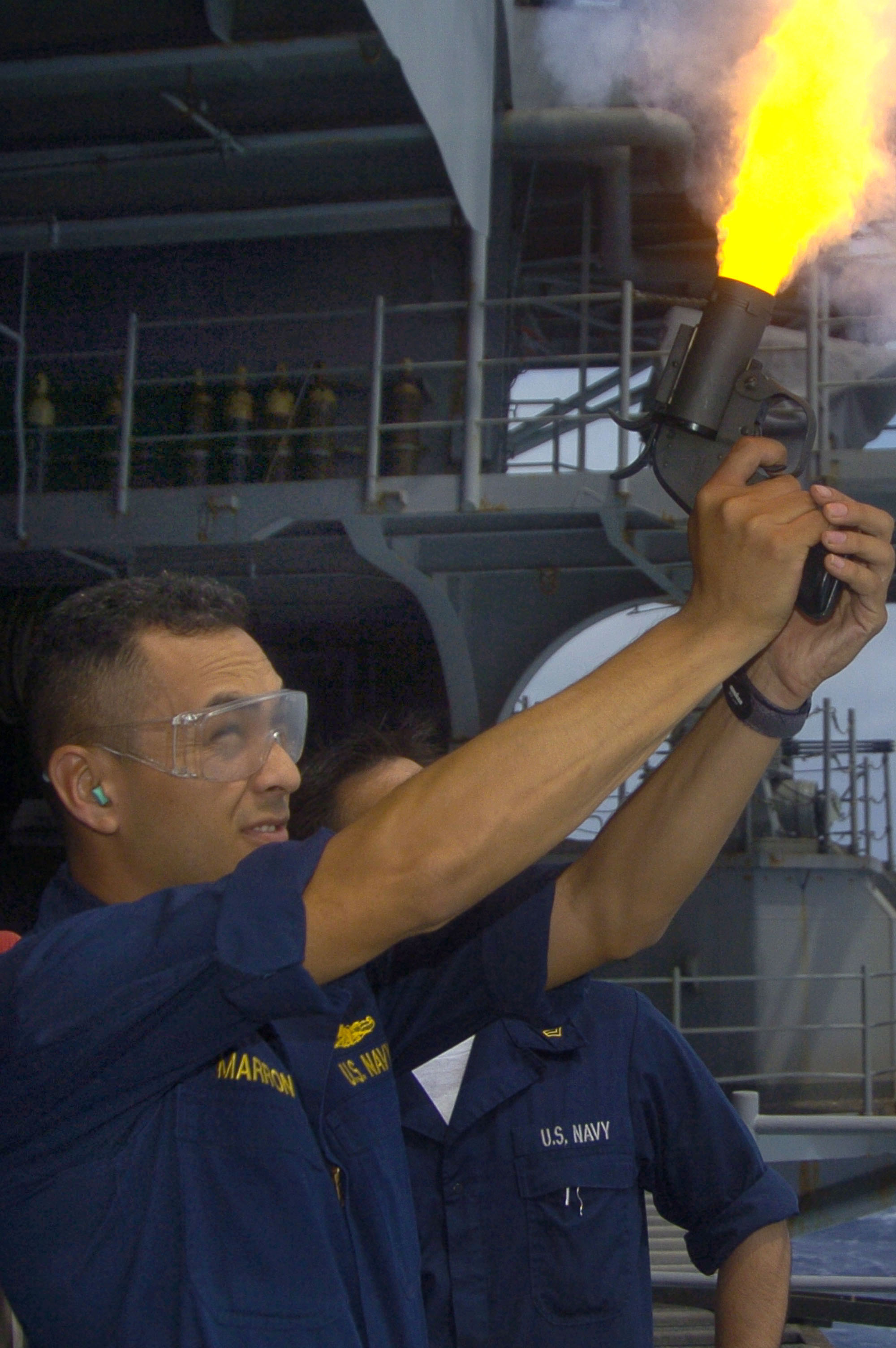 Pacific Ocean (Aug. 26, 2005) - Lt. j.g. Armando Marron, fires a flare gun off the fantail aboard the conventionally-powered aircraft carrier USS Kitty Hawk (CV 63) during a routine training exercise. Flare guns are vital equipment used aboard ships for distress and warning shots. Currently under way in the 7th Fleet area of responsibility (AOR), Kitty Hawk demonstrates power projection and sea control, as the U.S. Navy's only permanently forward-deployed aircraft carrier, operating from Yokosuka, Japan. U.S. Navy photo by Photographer's Mate Airman Joshua Wayne LeGrand (RELEASED)